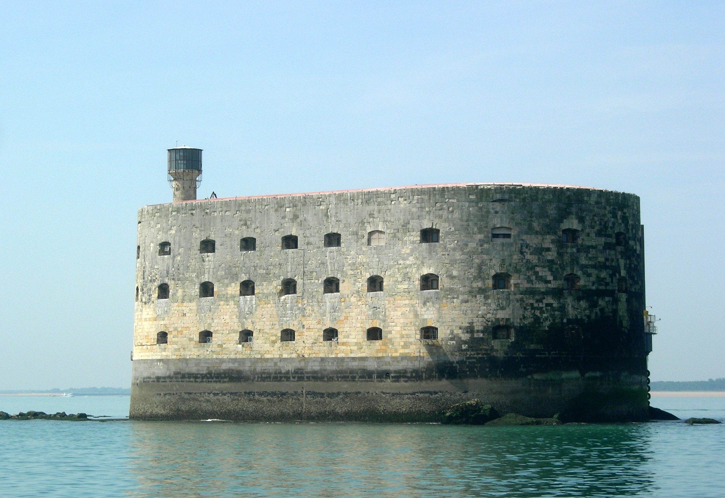 Description =Fort Boyard Source =Photo taken by Remi Jouan Date =Juin 2006 Author =Remi Jouan